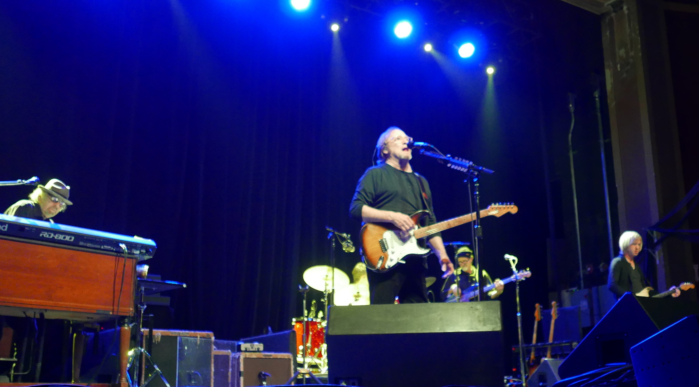 The Rides, UC Theater, Berkeley, CA, June 02, 2016